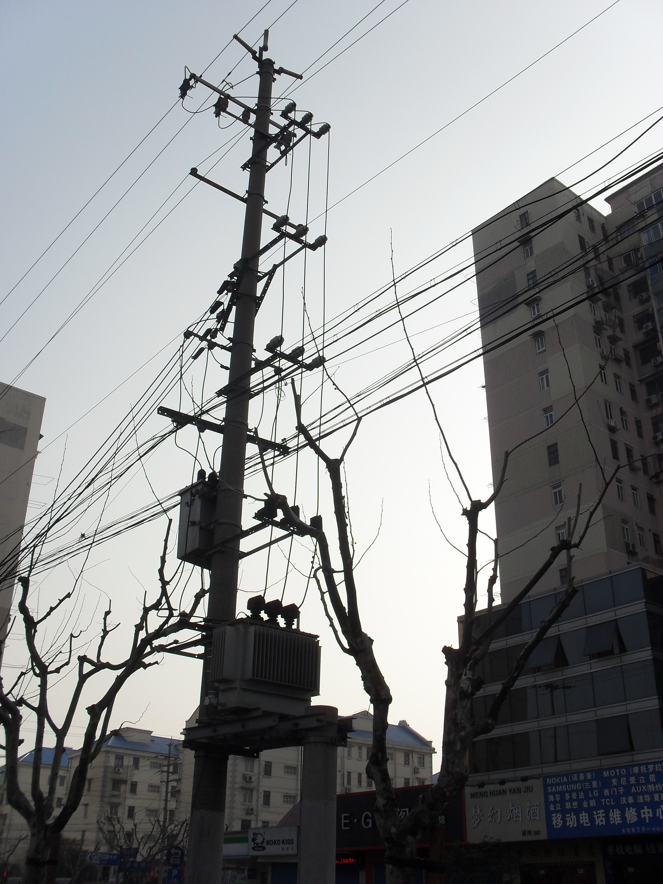 Utility pole in the People's Republic of China.